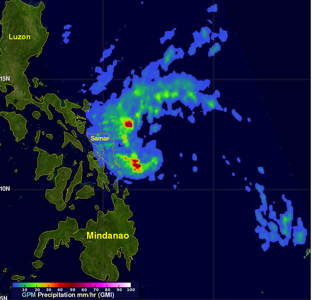 Typhoon Mekkhala shows it's rainfall prior to make landfall over Philippines on January 16, showing its eye and its on 2200UTC.